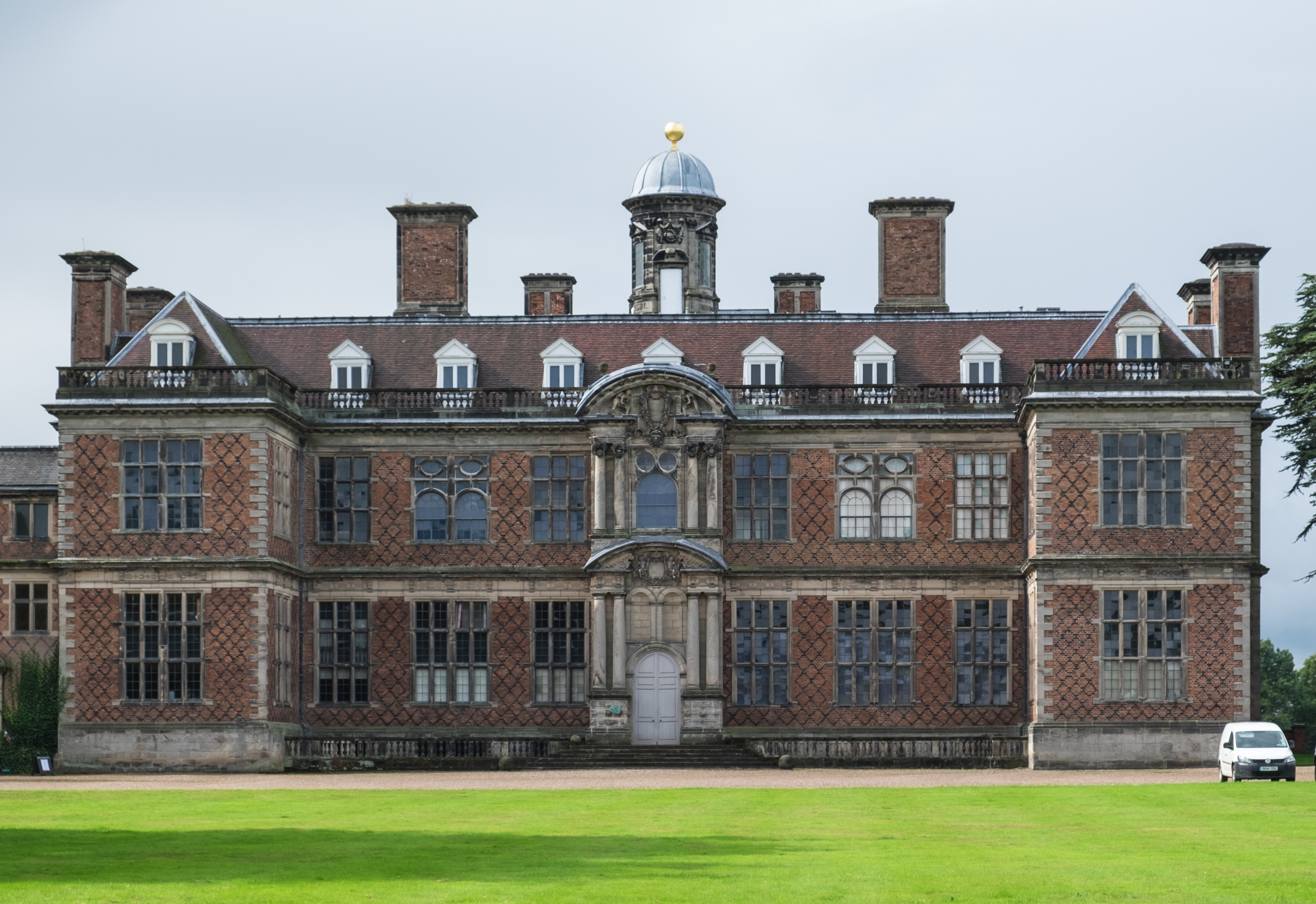 Sudbury Hall from the north-east. This 17th-century building is a listed building in England.